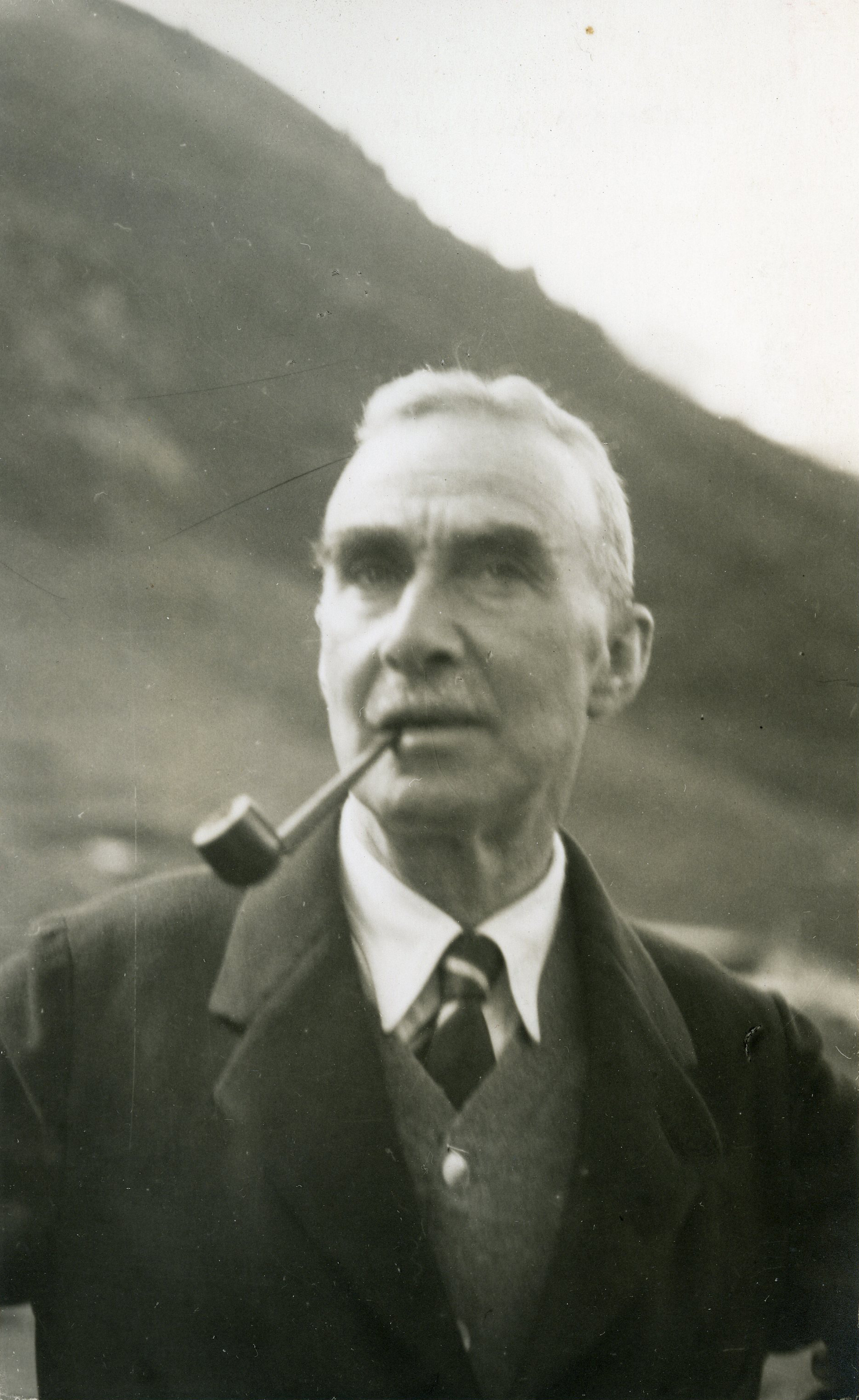 Cambridge musician, organist and composer Cyril Bradley Rootham (1875-1938)